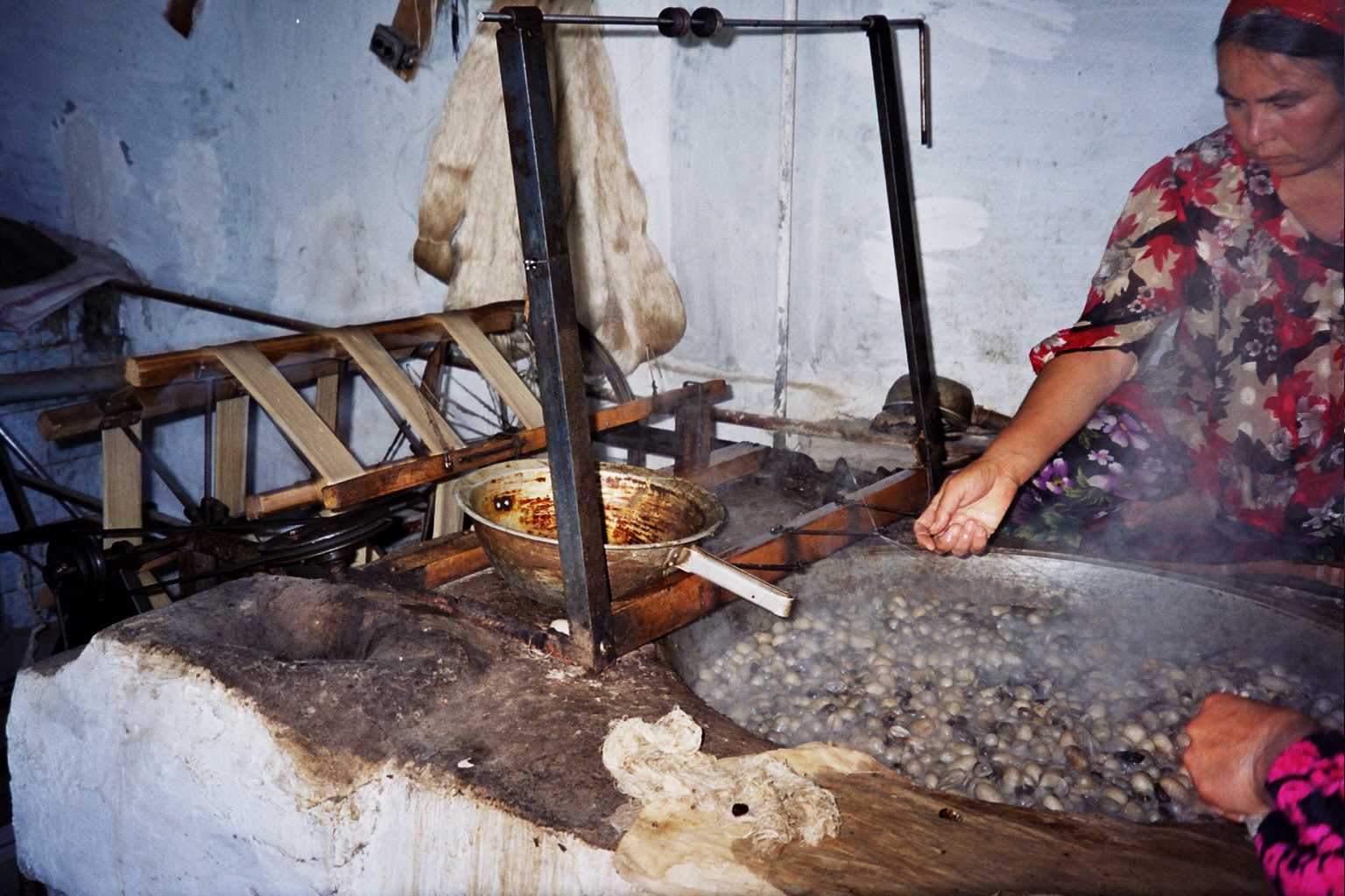 the strands are then strung through this machine which makes silk thread (Yodgorlik Silk Factory in Margilan